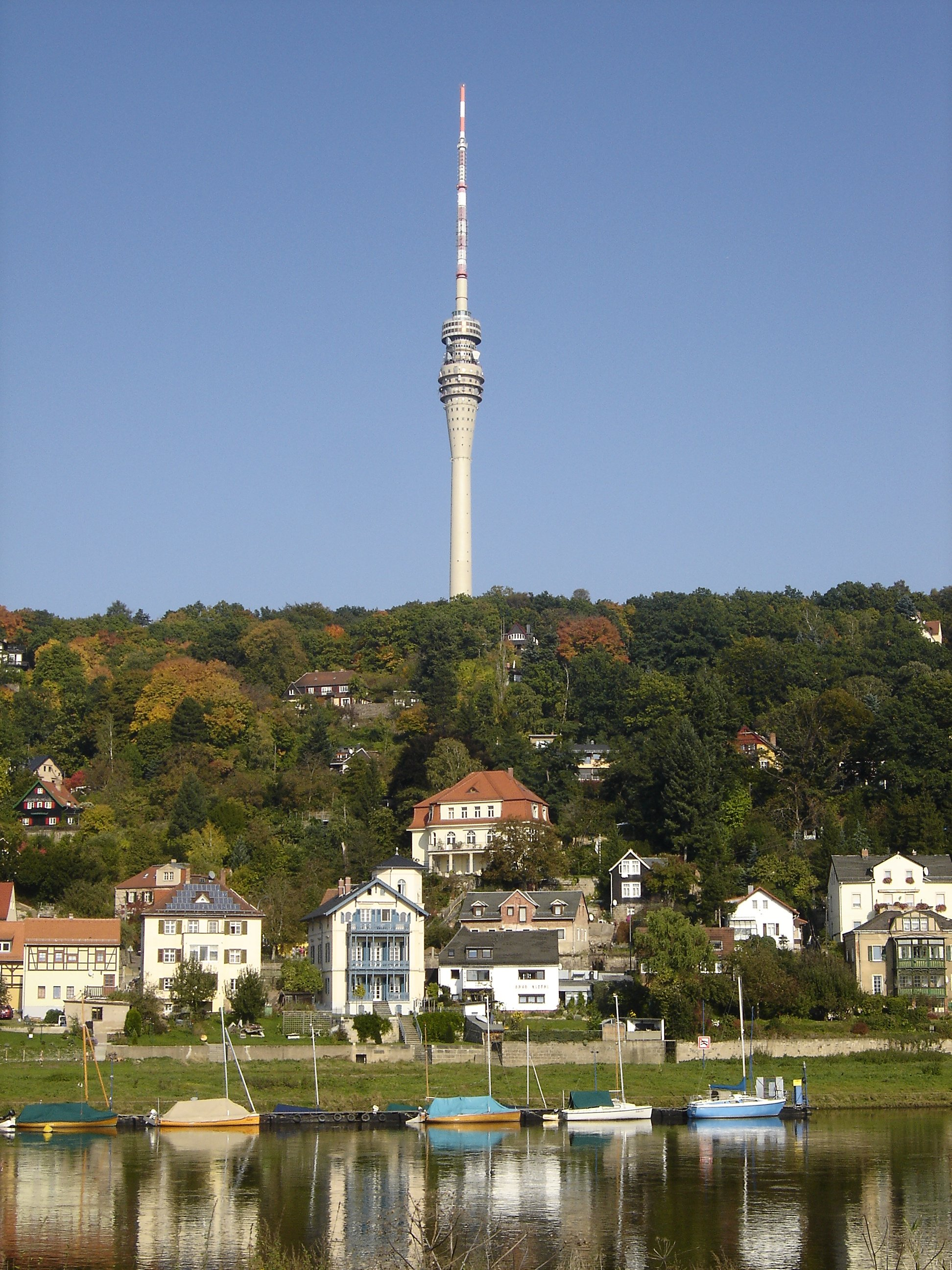 Village of Wachwitz in Dresden from the other elbe riverside